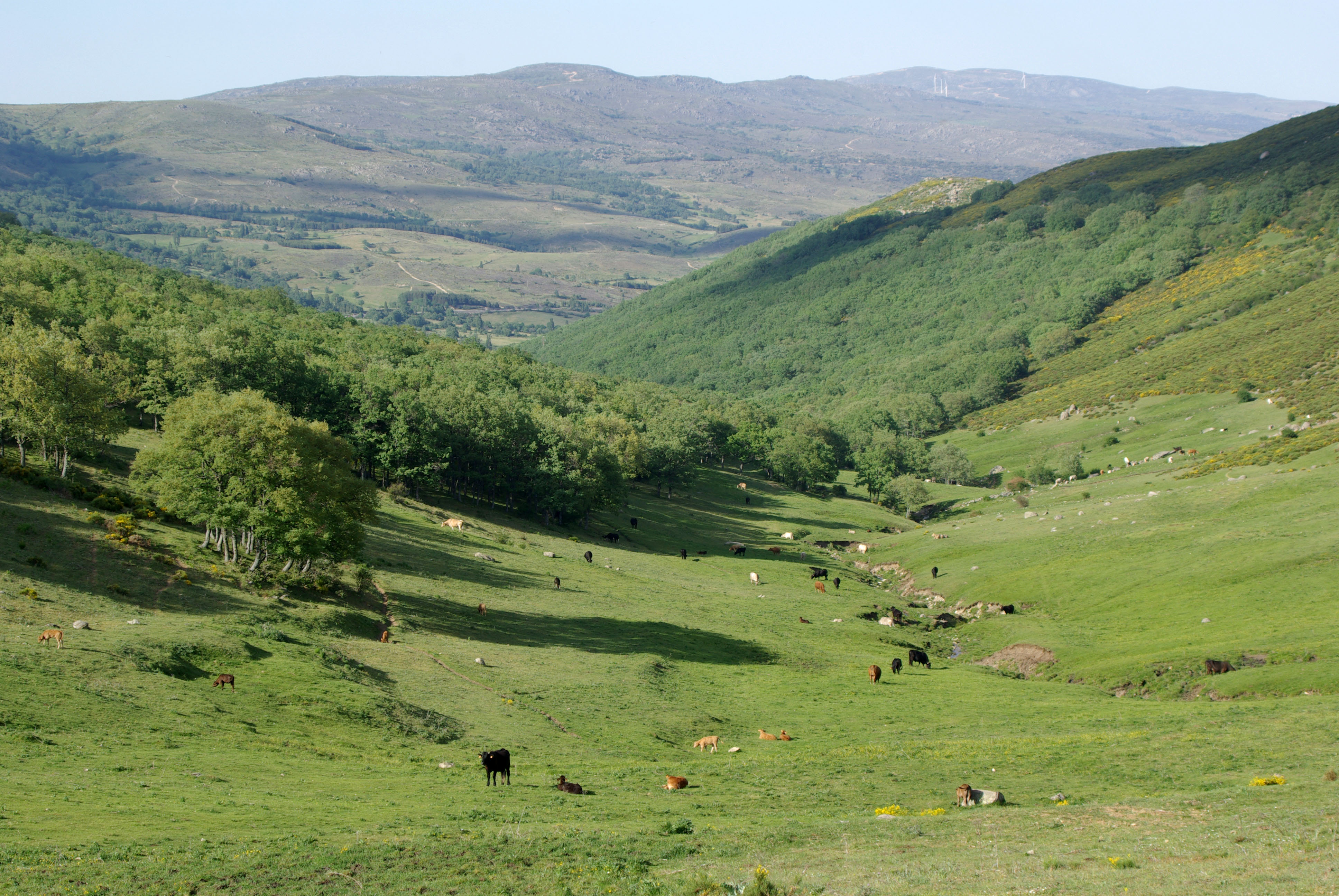 Fuente Berroqueña: River Adaja source. Near Villatoro (Ávila, Spain)